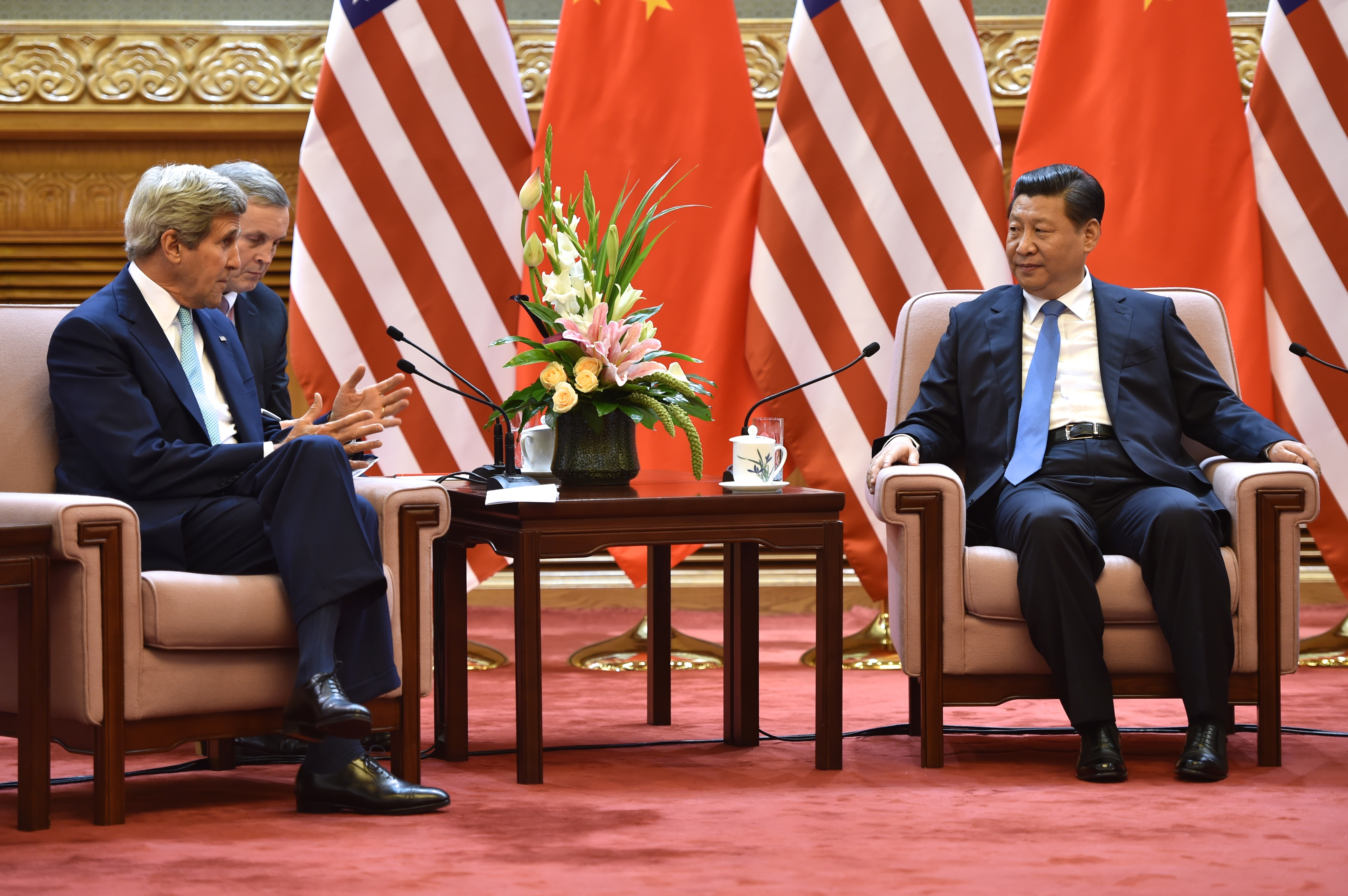 U.S. Secretary of State John Kerry speaks with Chinese President Xi Jinping to discuss the conclusion of the 5th Annual U.S.-China People-to-People Exchange and Sixth Strategic and Economic Dialogue between the two nations on July 10, 2014.